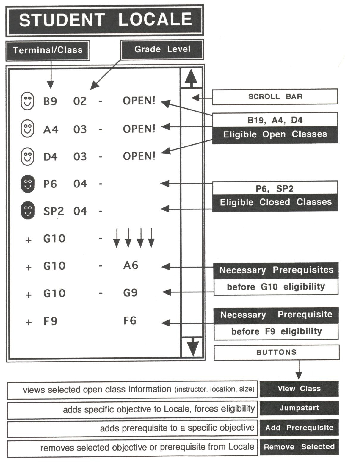 CPM Management Software Locale Feature.